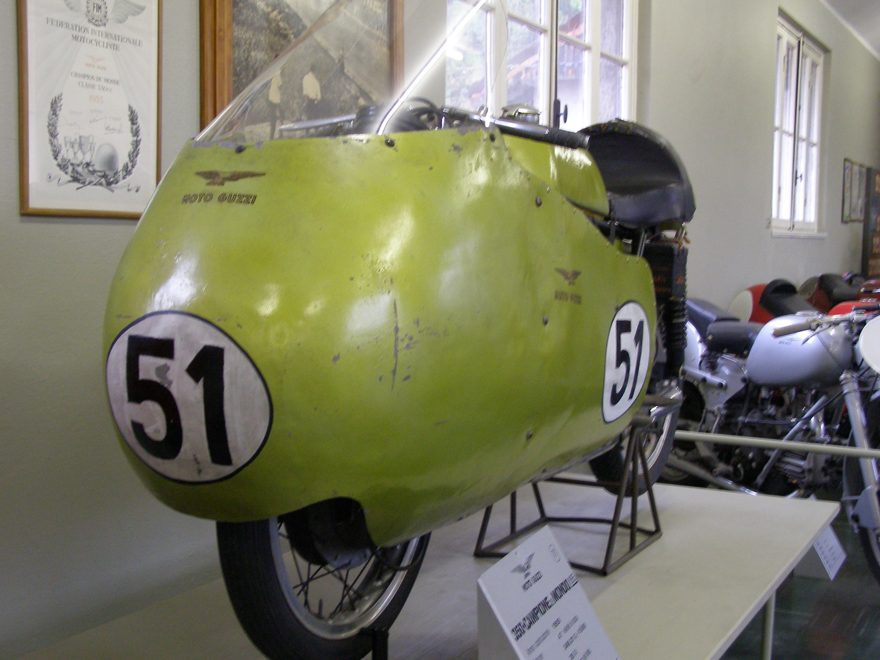 Mandello del Lario - Moto Guzzi museum